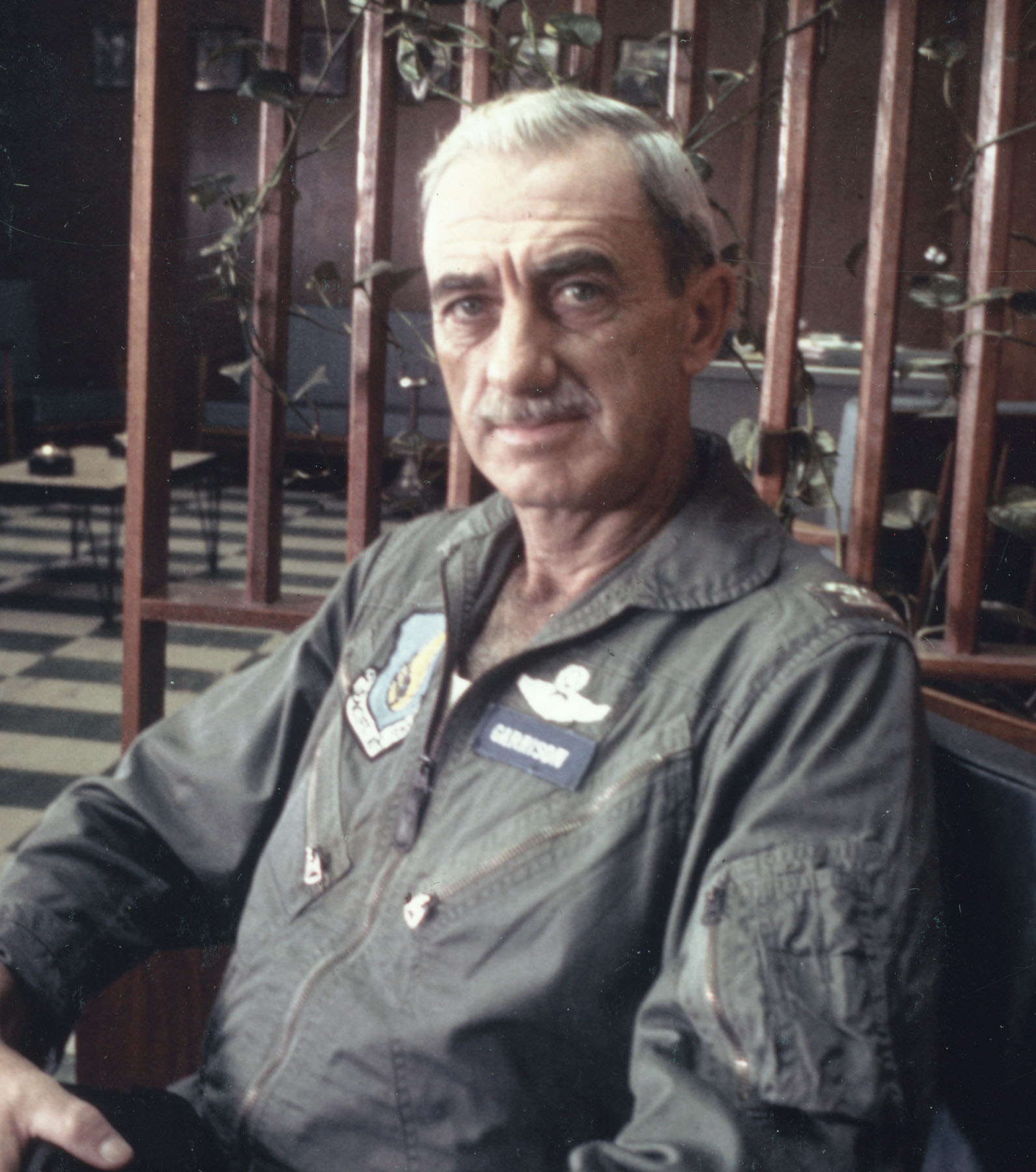 Col. Vermont Garrison of the 8th Tactical Fighter Wing in Vietnam